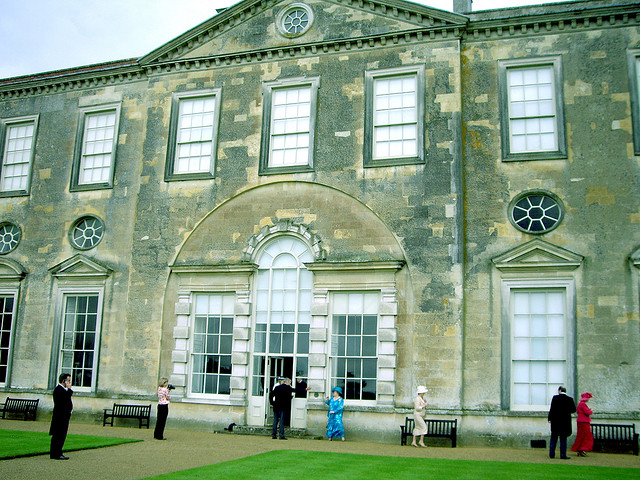 Claydon House 3